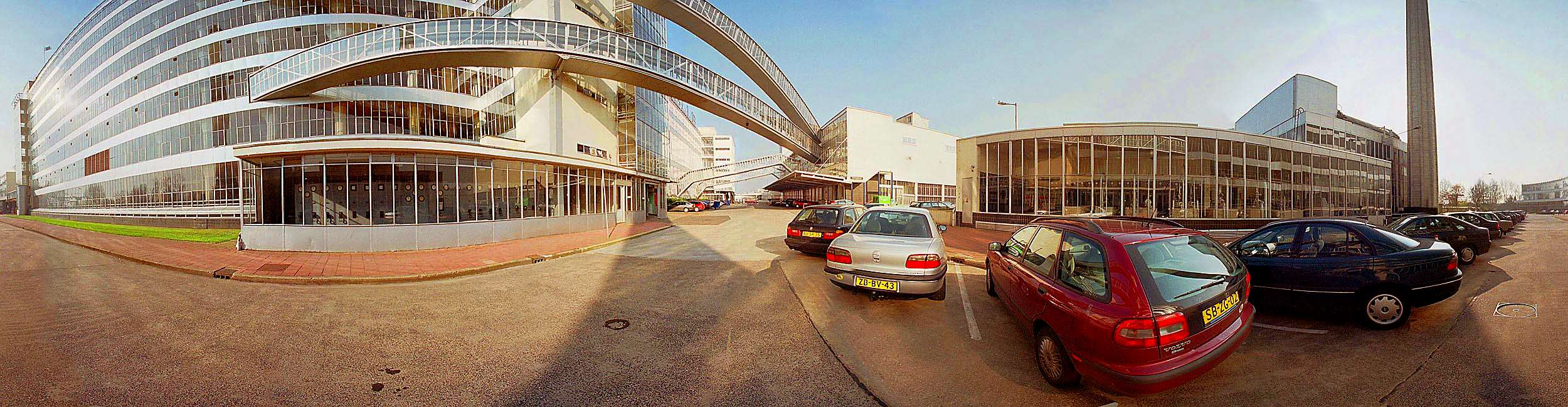 Inner court of the former Van Nelle factory, Rotterdam, Netherlands. Industrial monument. UN World Heritage candidate site. Full 360° panorama. (Picture: Tom Ordelman).